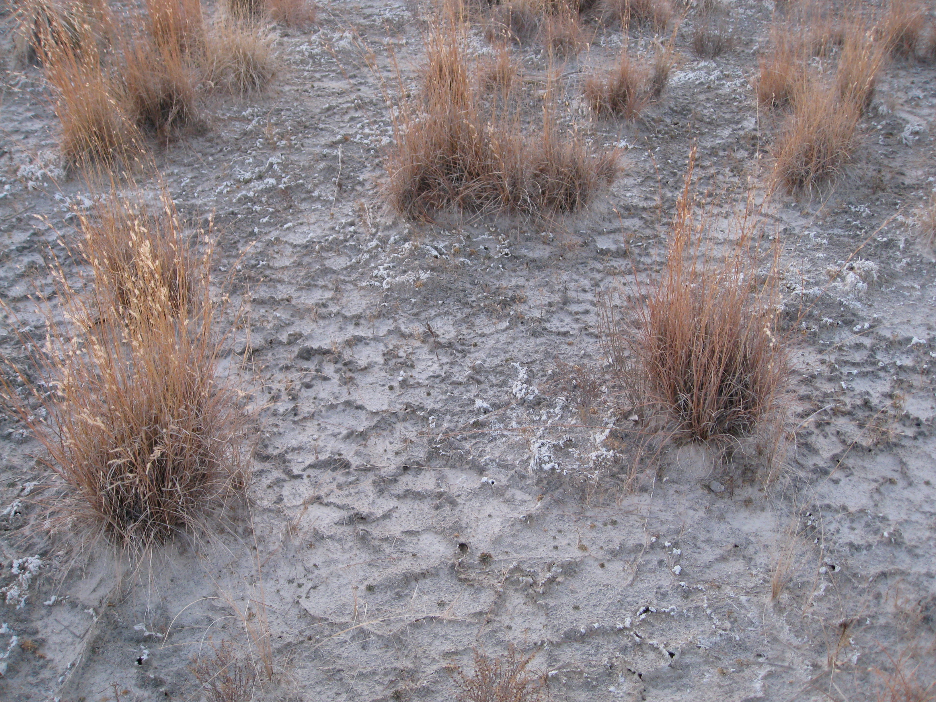 Photo of plants (Indian Ricegrass (Achnatherum hymenoides) growing in cryptobiotic crust at the White Sands National Monument. I took this picture in the evening.